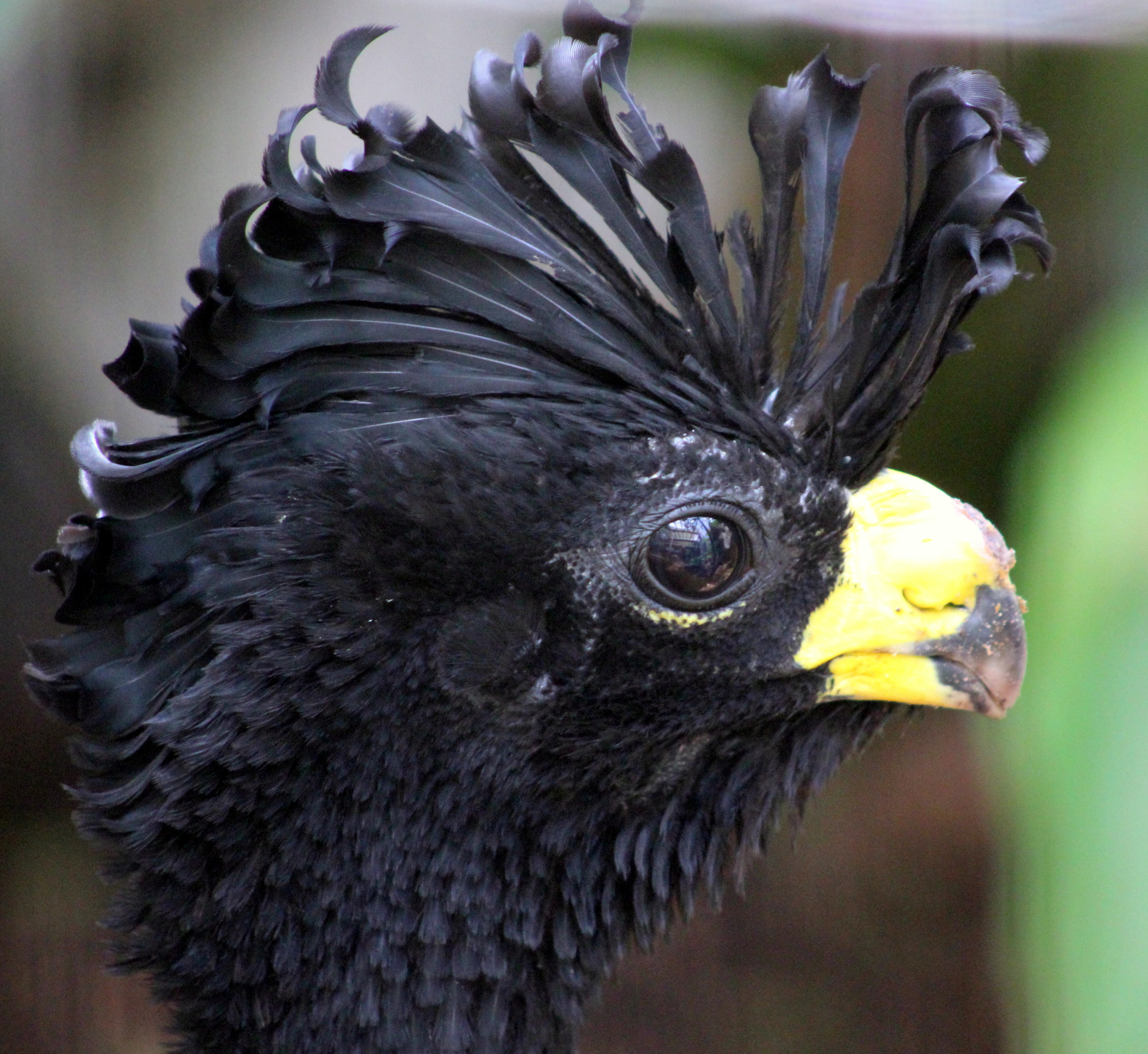 FIELD MARKS- The male is black with a curly crest, a white belly, and a yellow knob on its bill.There are three morphs of female Great Curassows Barred morph females with barred neck, mantle, wings and tail, rufous morph with an overall reddish brown plumage and a barred tail, and dark morph female with a blackish neck, mantle and tail the tail often faintly vermiculated, and some barring to the wings